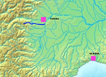 Sangone creek location (TO, Italy)